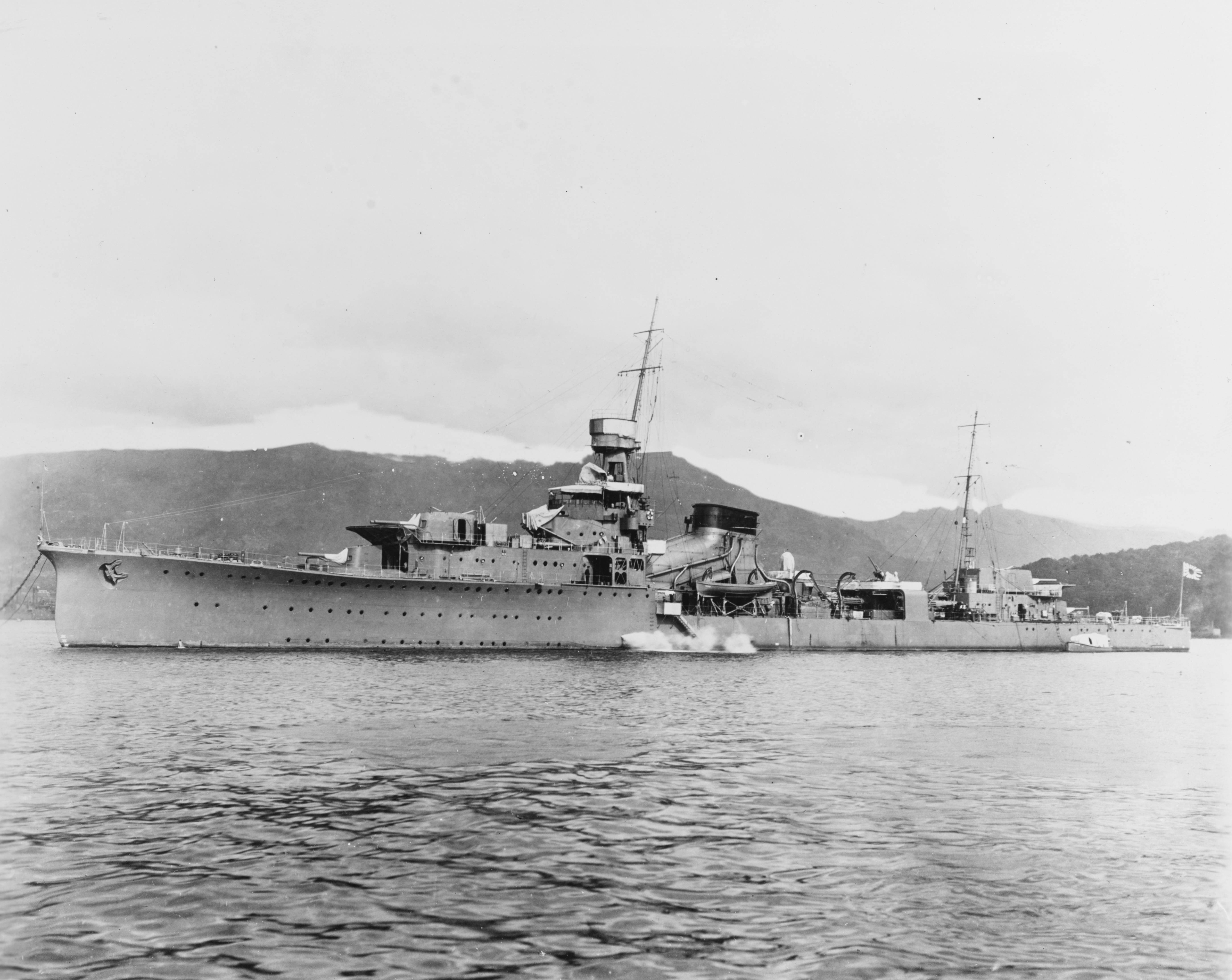 (Japanese Light Cruiser, 1923) Photograph apparently taken on 15 November 1924. Inscription in lower left reads: Warship Yubari Taisho 13-11-15. Photograph from the Bureau of Ships Collection in the U.S. National Archives.